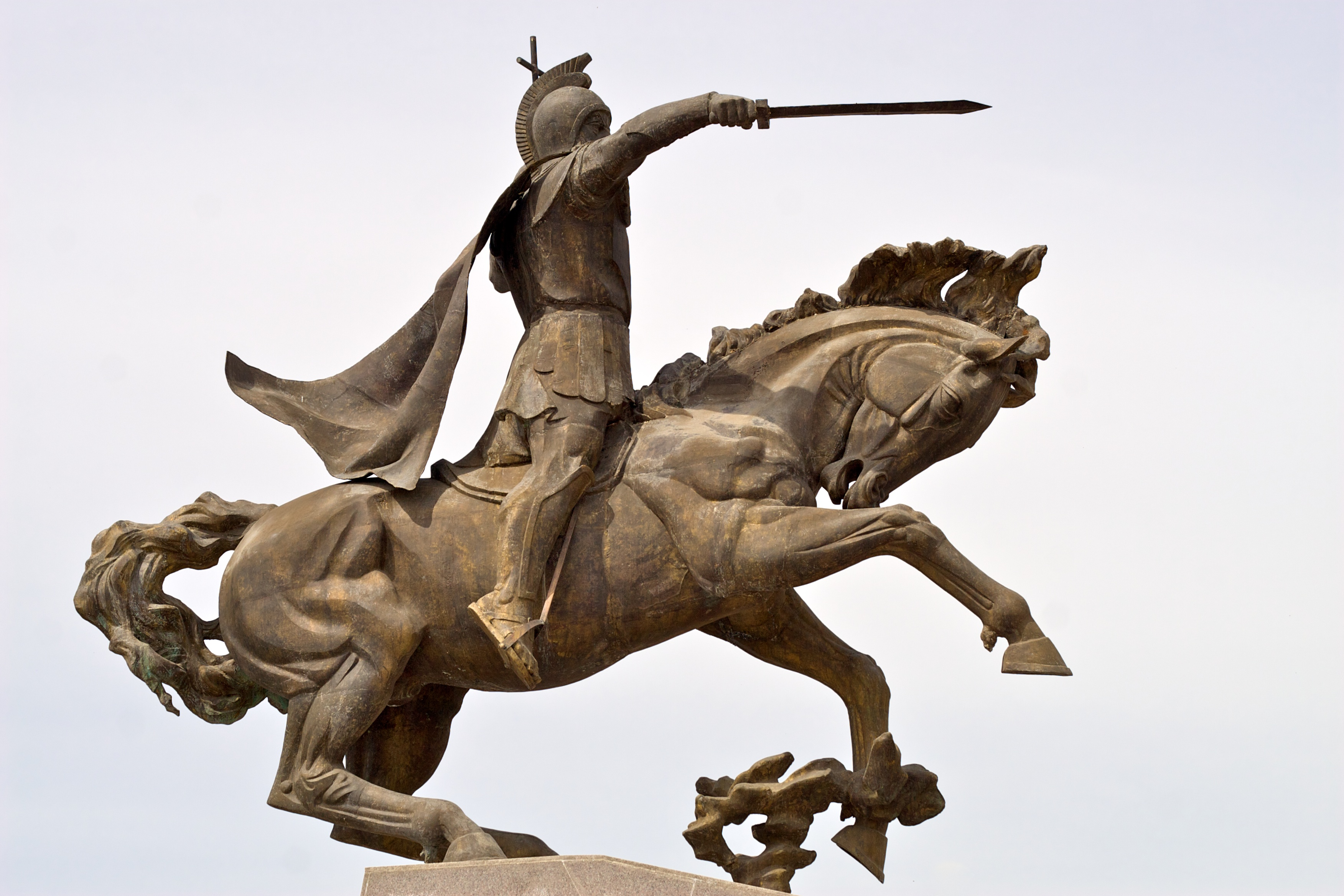 Vardan Mamikonian's equestrian statue in Gyumri.